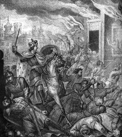 Prince Alexander Mikhailovich exterminates Tatars in Tver'